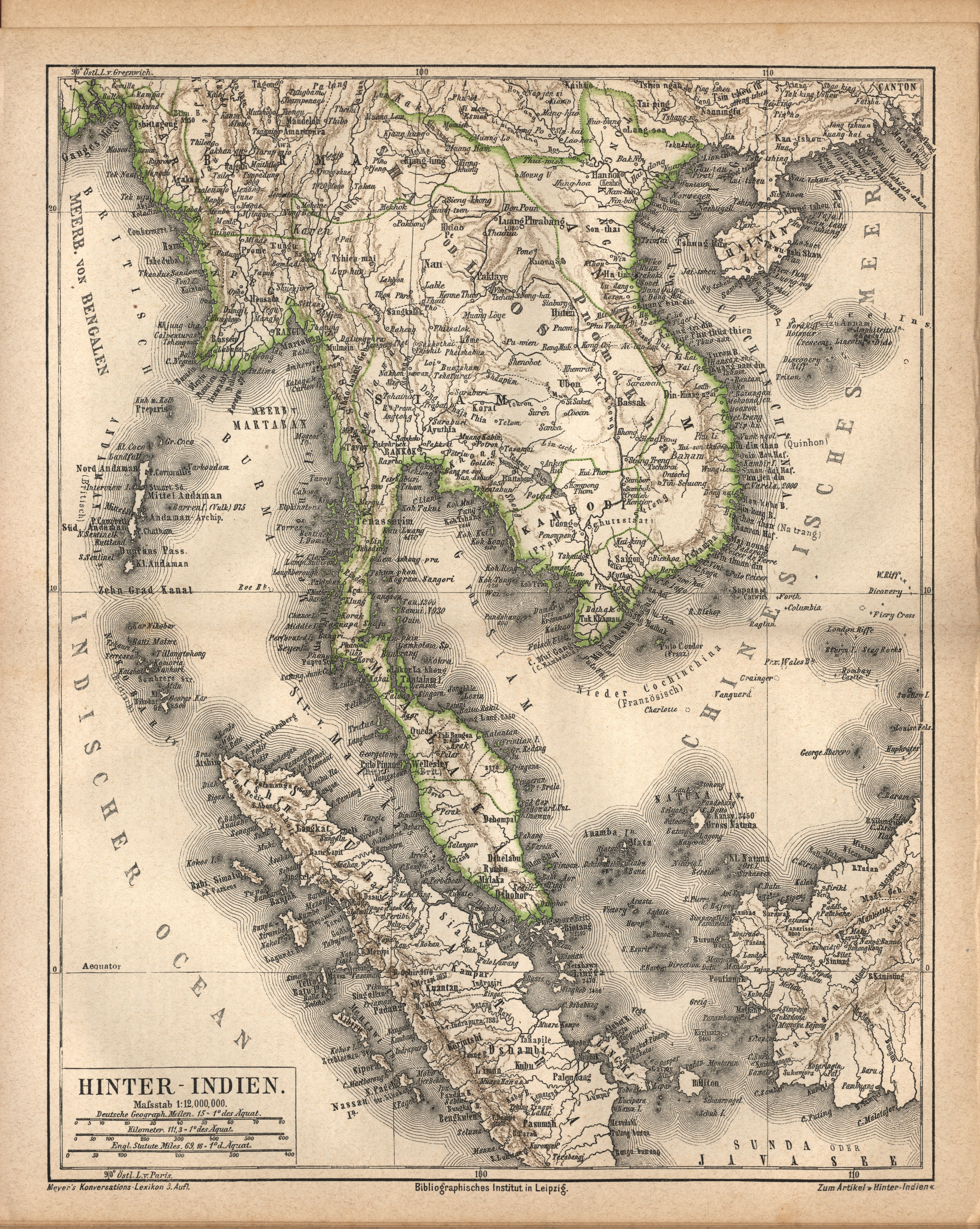 Map of Indochina, 1876